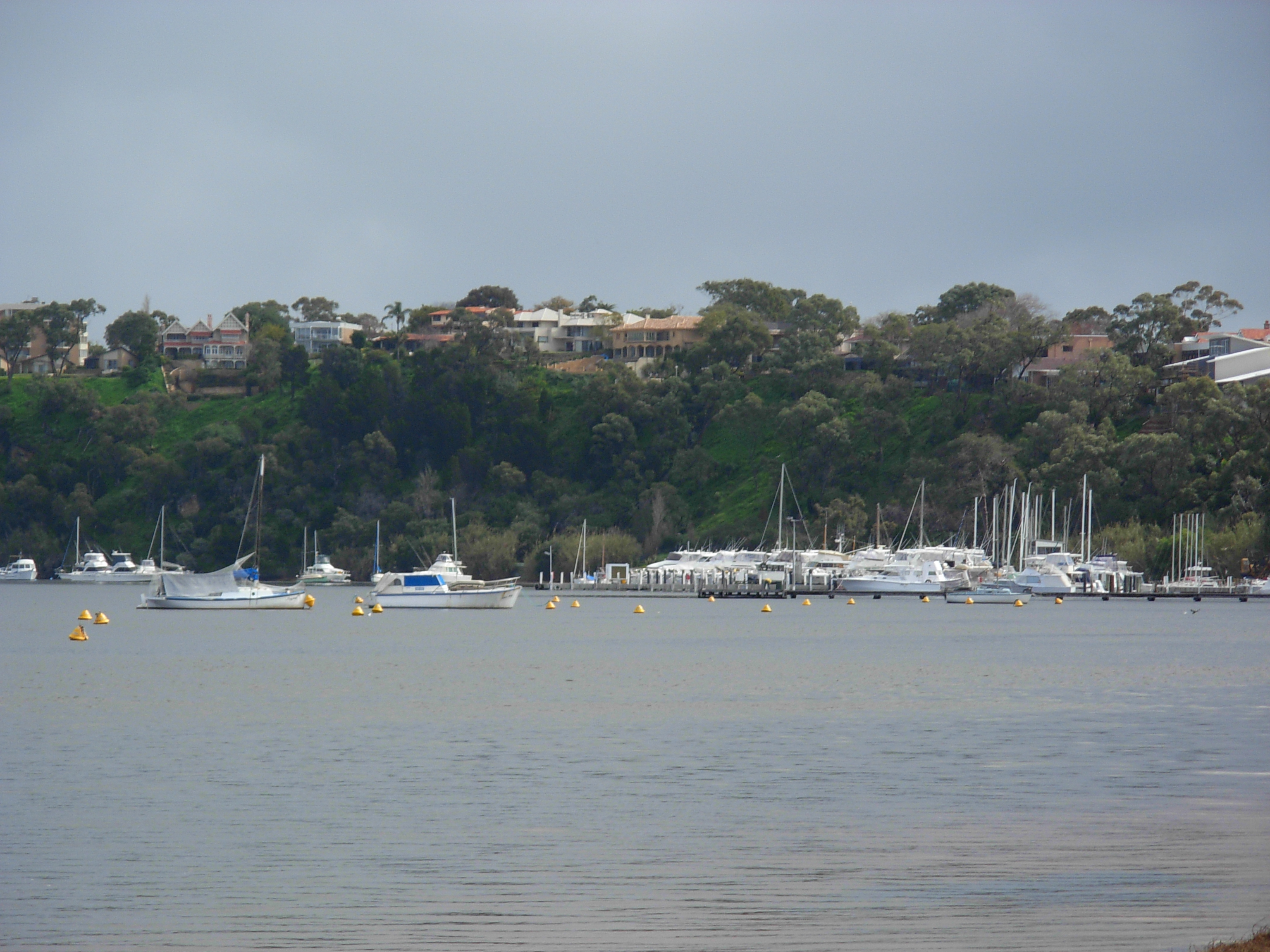 Taken from Claremont, Western Australia foreshore, looking west to Peppermint Grove, with boats moored